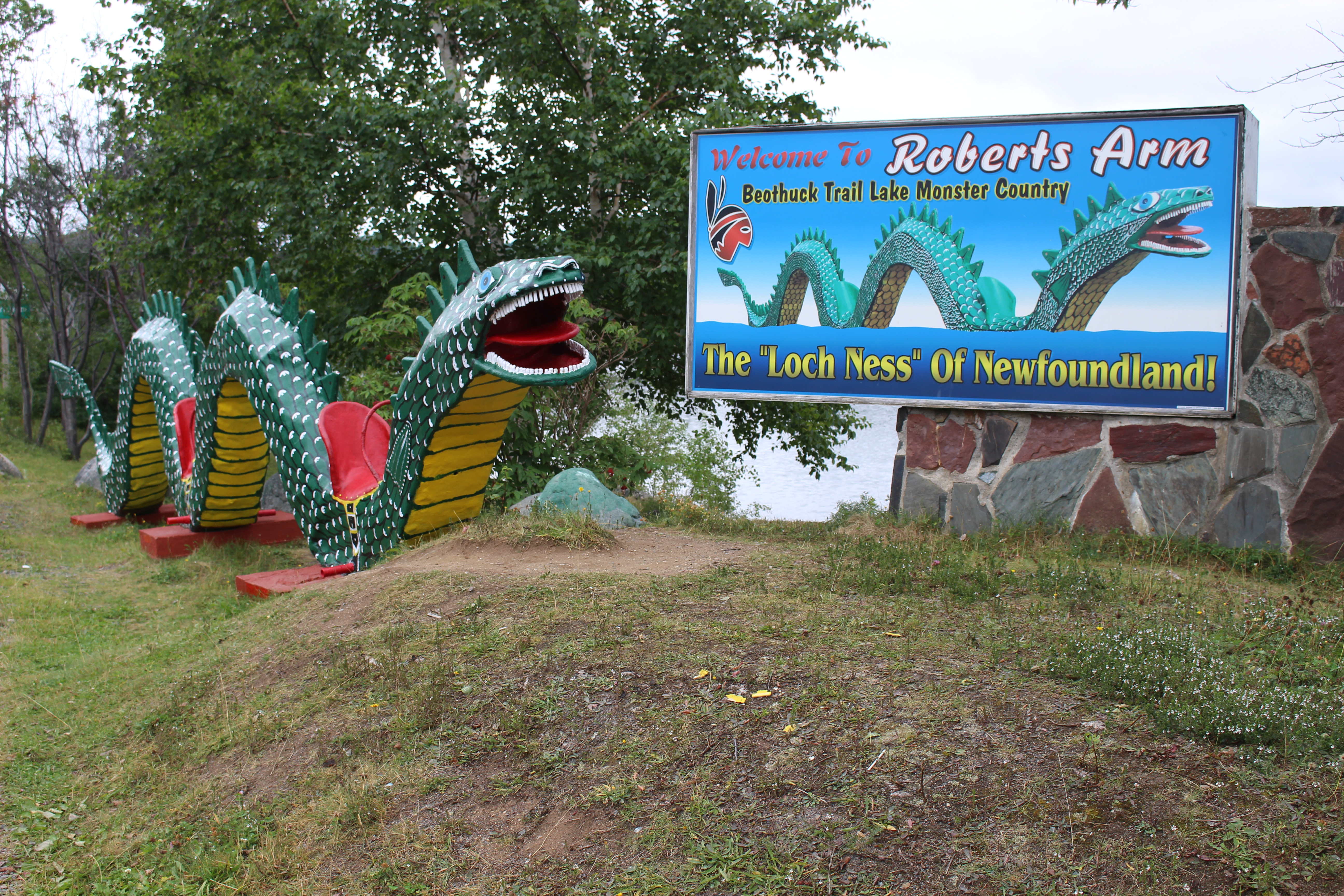 The statue of Cressie on the shores of Crescent Lake, Robert's Arm, Newfoundland. It is at least the second such statue of Cressie in this location. Photo take summer 2016 by Dale Gilbert Jarvis.